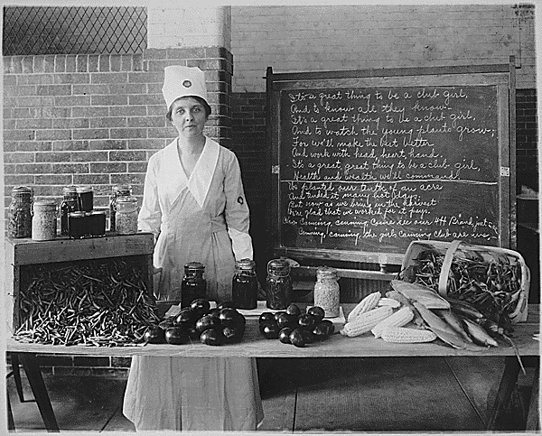 Mrs. Mina C. van Winkle of Newark, New Jersey, in uniform of Food Administration. She was president of Woman's Political Union of New Jersey 8 years and is now head of Lecture Bureau of Food Administration., ca. 1917 - ca. 1918